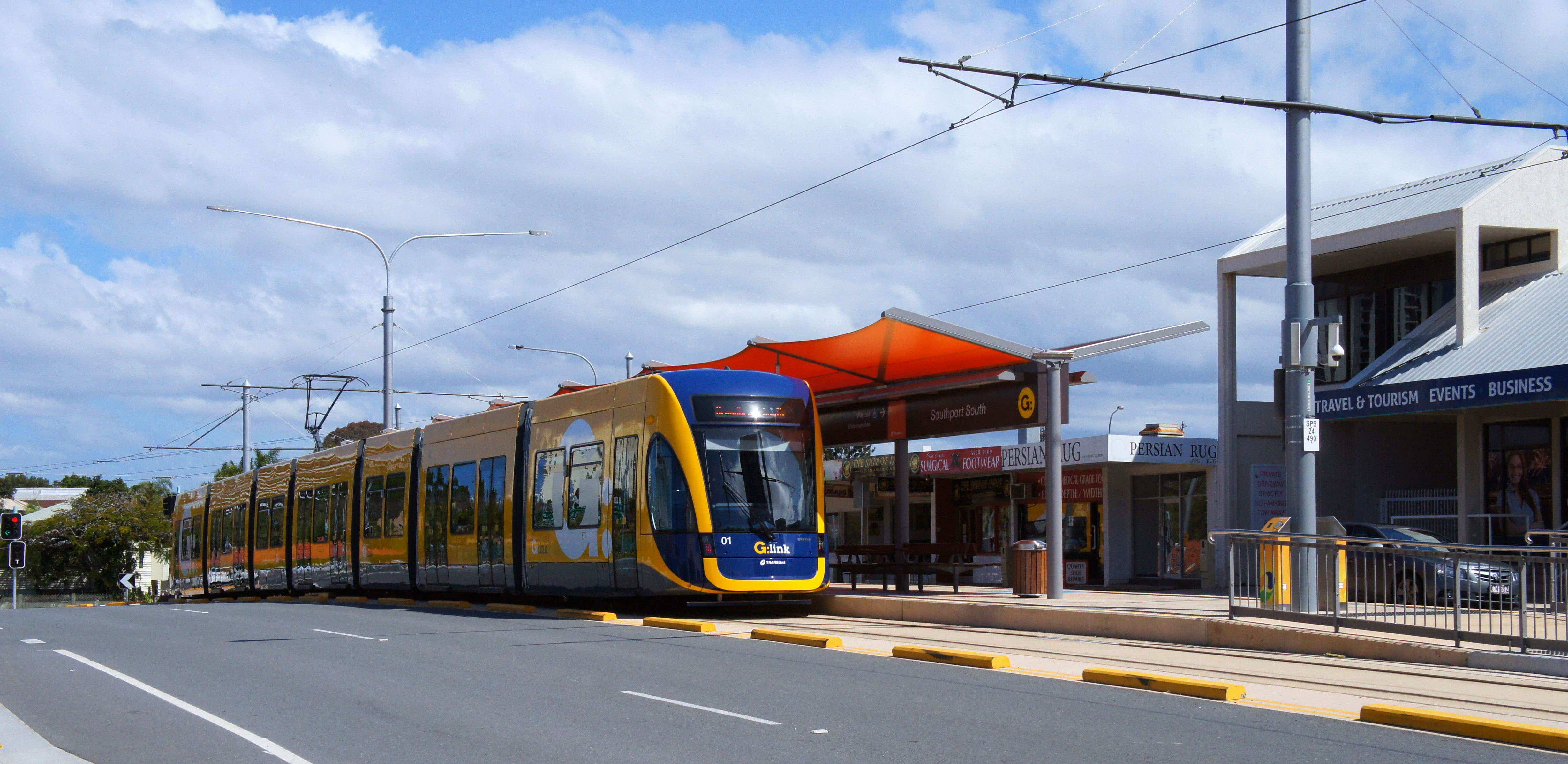 Tram stopped at Southport South on the Gold Coast Light Rail.